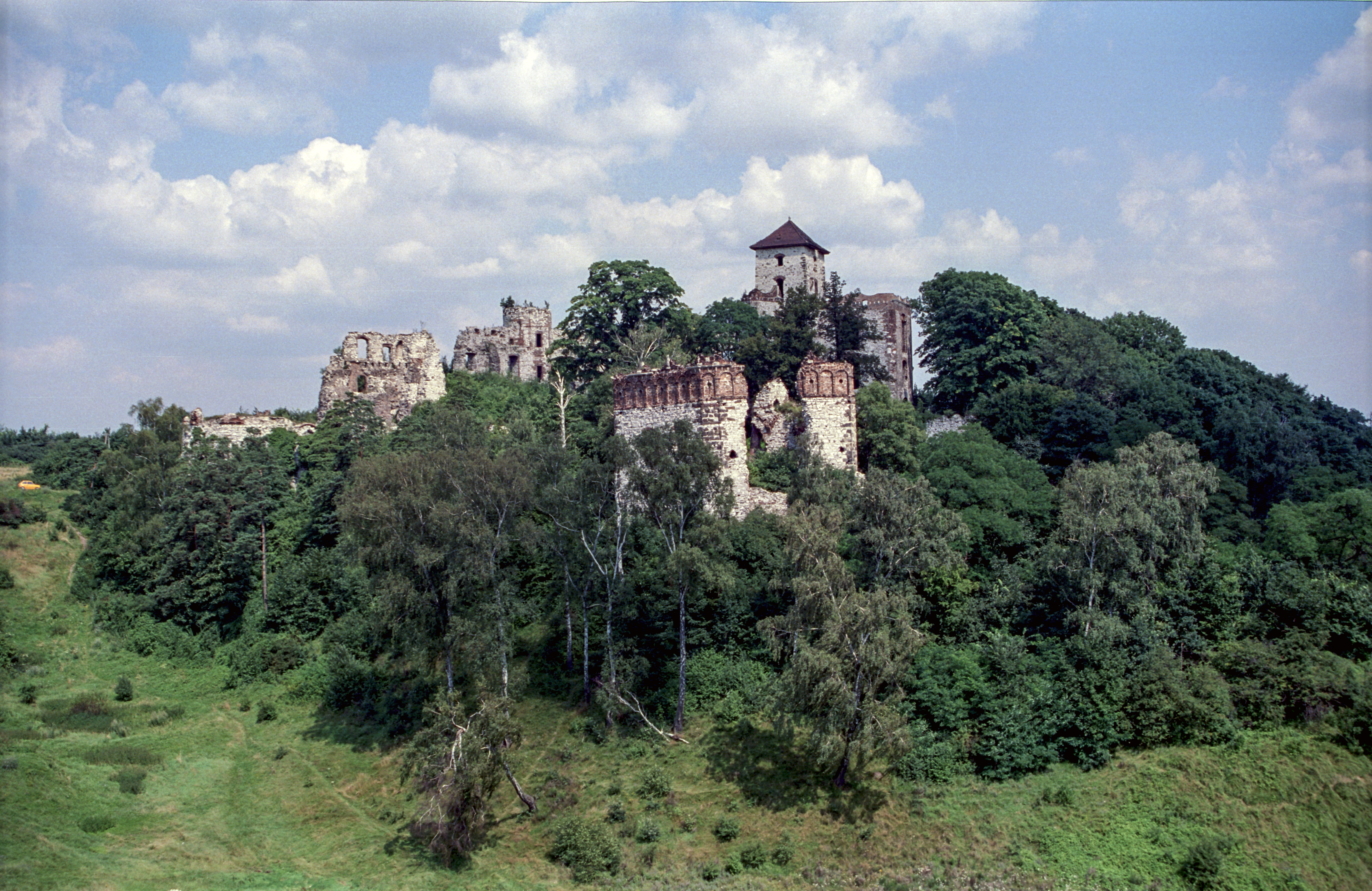 Poland, Jura, TenczynCastle